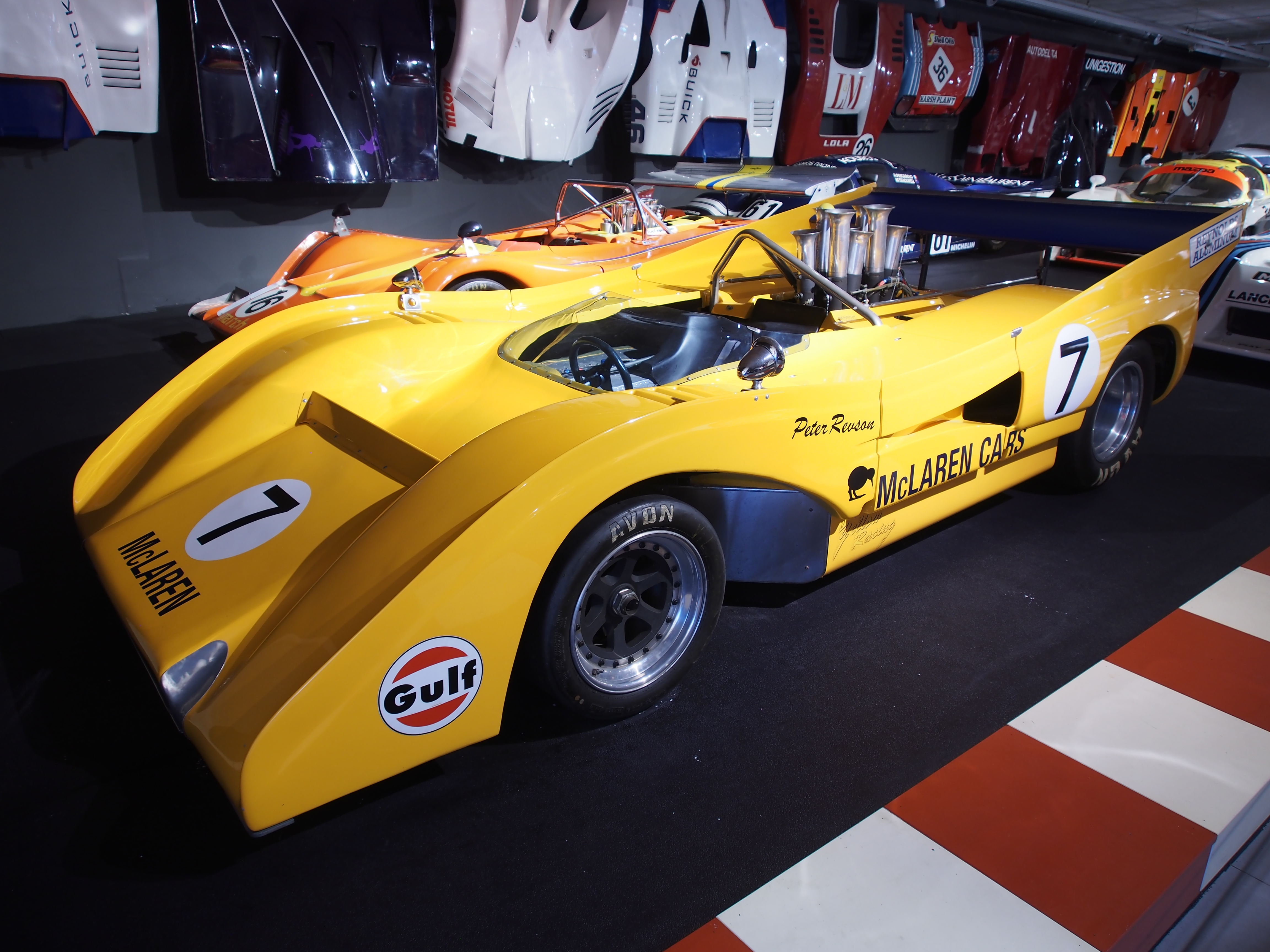 1971 McLaren M8F photographed at the Louwman museum.